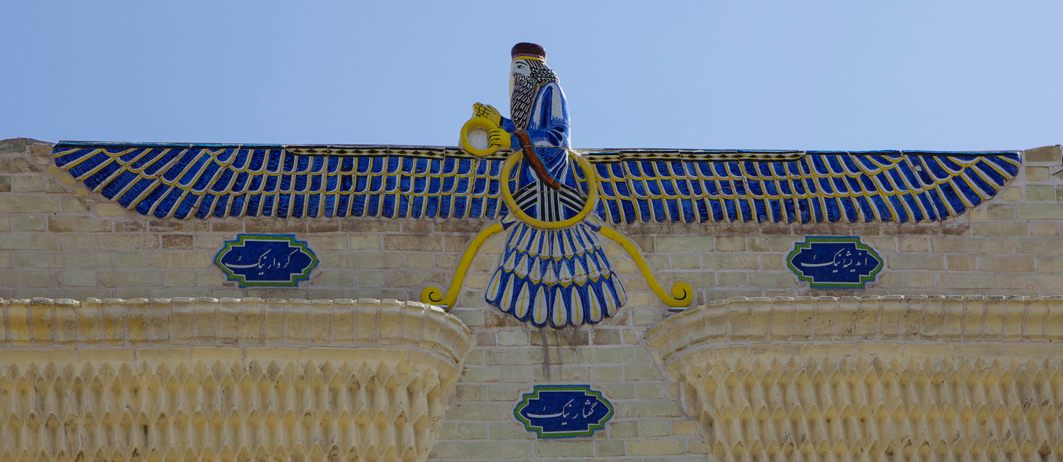 Faravahar Symbol in a Fire temple (Atashkadeh) in Yazd, Iran